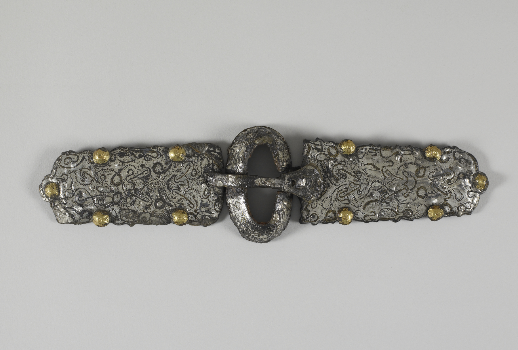 Found frequently at archaeological sites in Burgundy, these large, ornate buckles were worn by women and indicated the high status of their owners. The decoration, known as interlace, is fluid and seems almost to move, drawing the observer into the complexities of the pattern. As this style developed, sinuous, fantastic animal forms replaced the ribbons seen here.